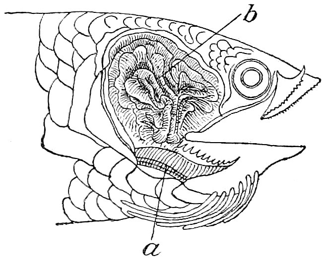 A cutaway diagram of the head of a climbing perch (Anabas scandens): a, Gills; b, Leaf-like apparatus serving as air-breathing lungs.